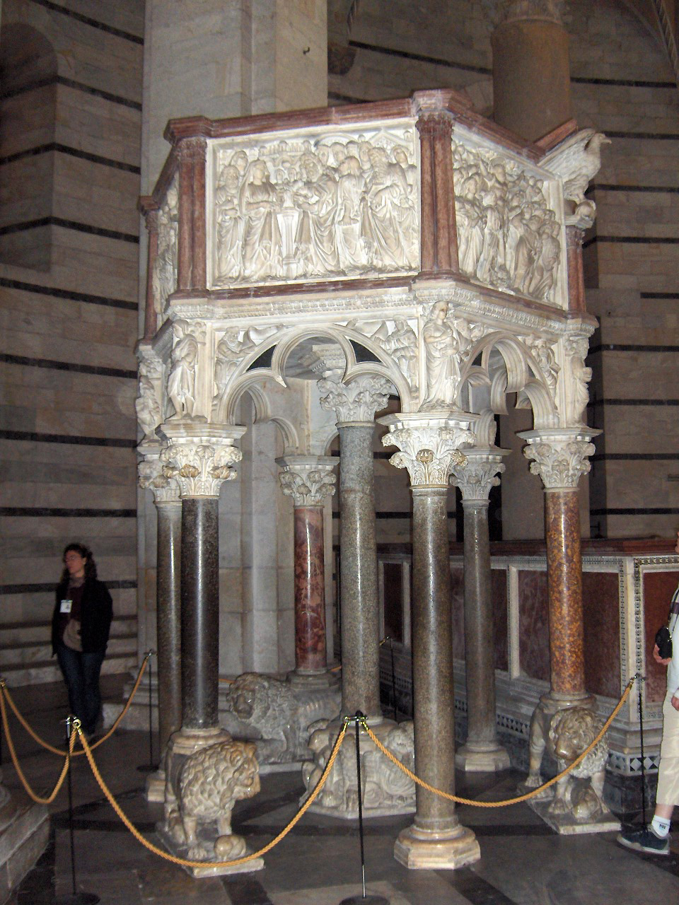 Pisa, Italy - Baptistry: pulpit by Nicola Pisano. Photo made by me on 10 October 2005